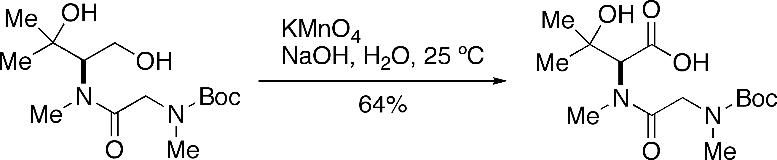 Oxidation of a primary alcohol to carboxylic acid using potassium permanganate